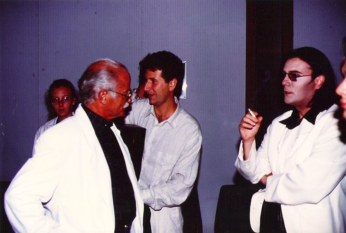 Italian singer-songwriters Gino Paoli (on the left) and Renato Zero (the one smoking on the right), with television presenter Fabio Fazio (at the center)